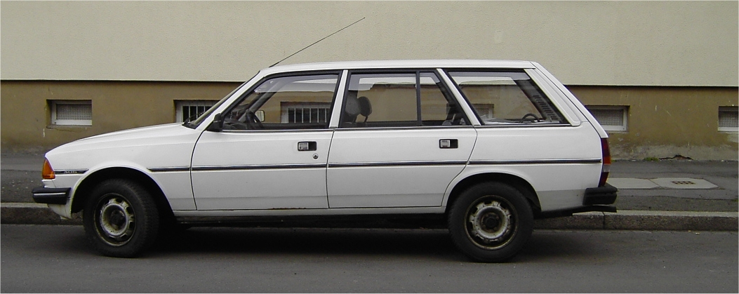 White Peugeot 305